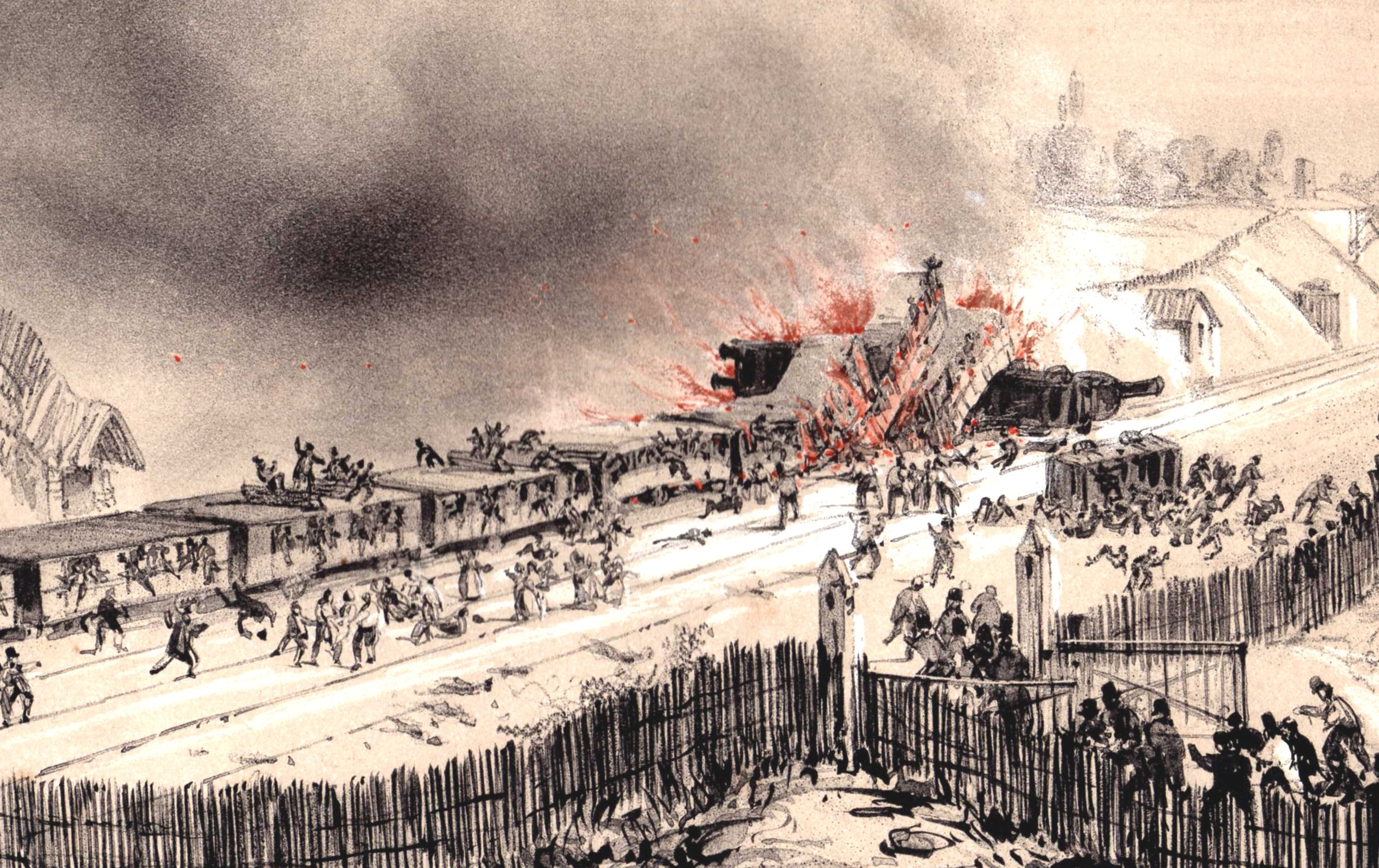 Versailles train crash in 1842, 55 people were killed included the French explorateur Jules Dumont d'Urville.